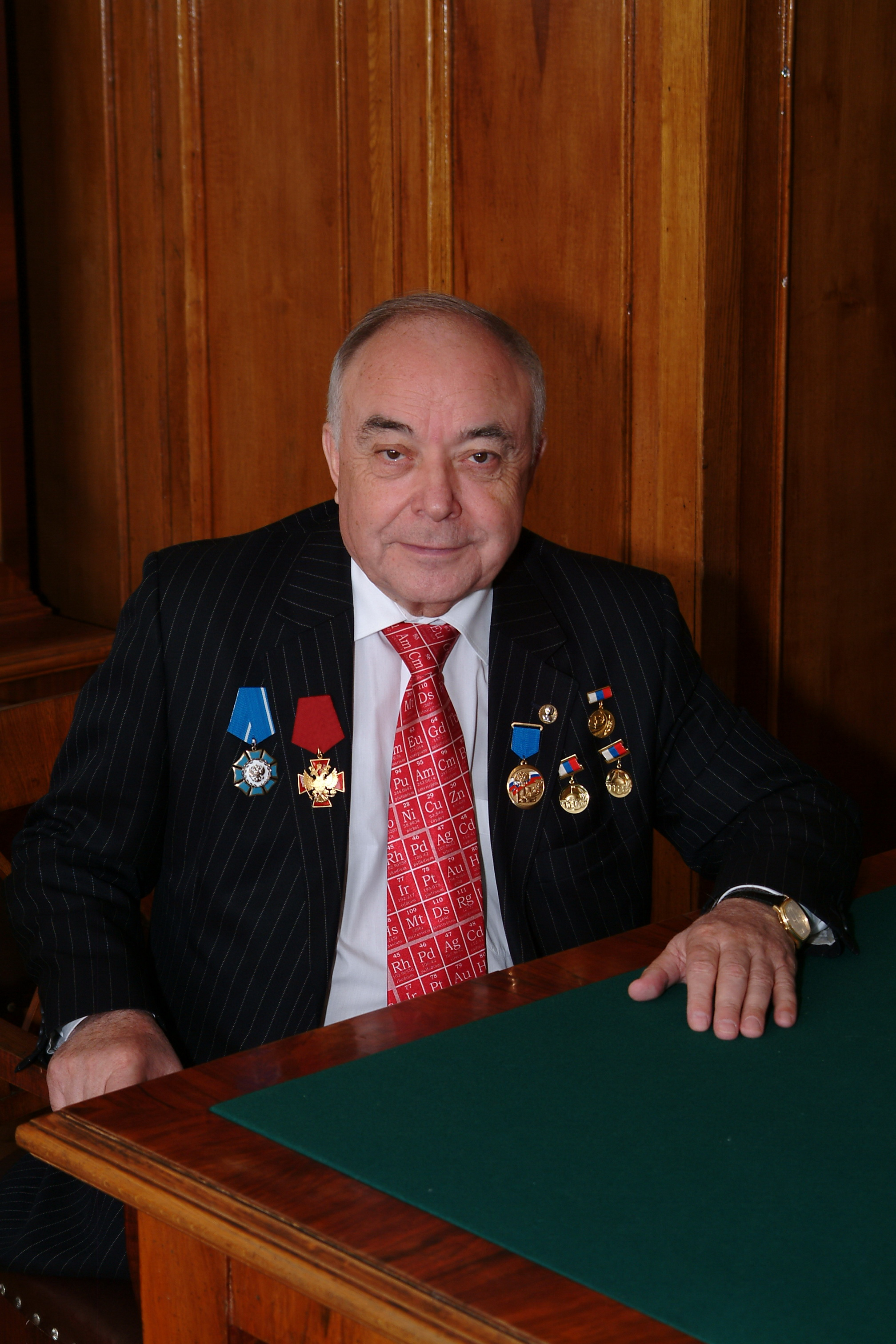 Valery Lunin 2008